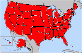 Presidential elections 1972 results by state